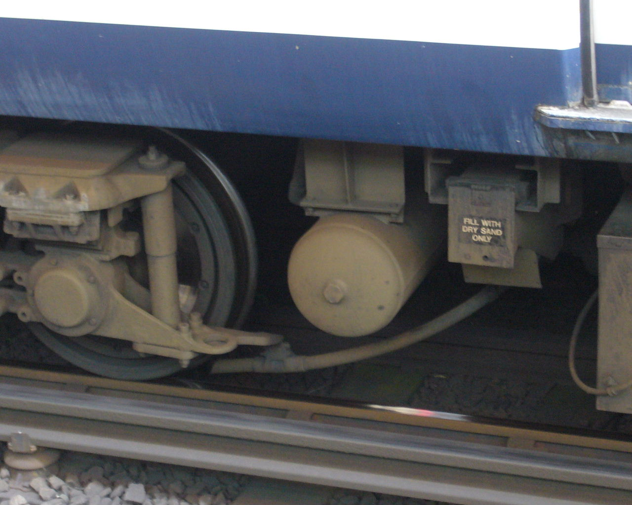 The sandbox of a British Rail Class 319 electric multiple unit seen on a northbound First Capital Connect train at Farringdon station. Any rail depot person would feel insulted by the message "fill with dry sand only" - they don't need to be told.